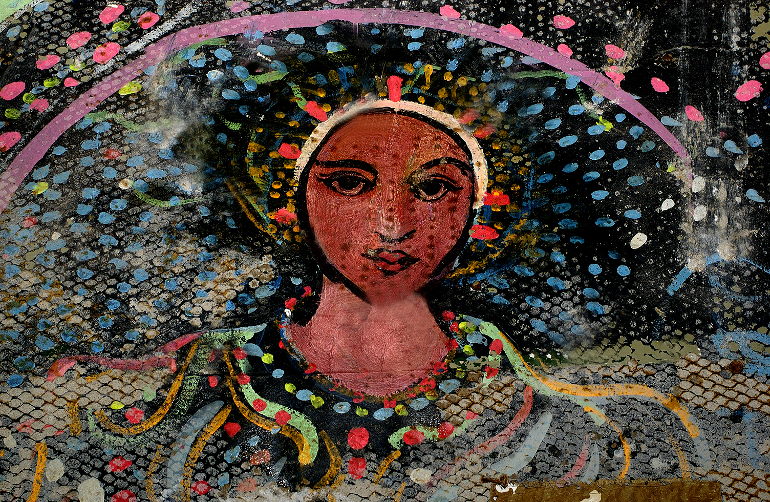 Day glow art from interior of The Electric Circus, 19-25 St. Marks Place NYC